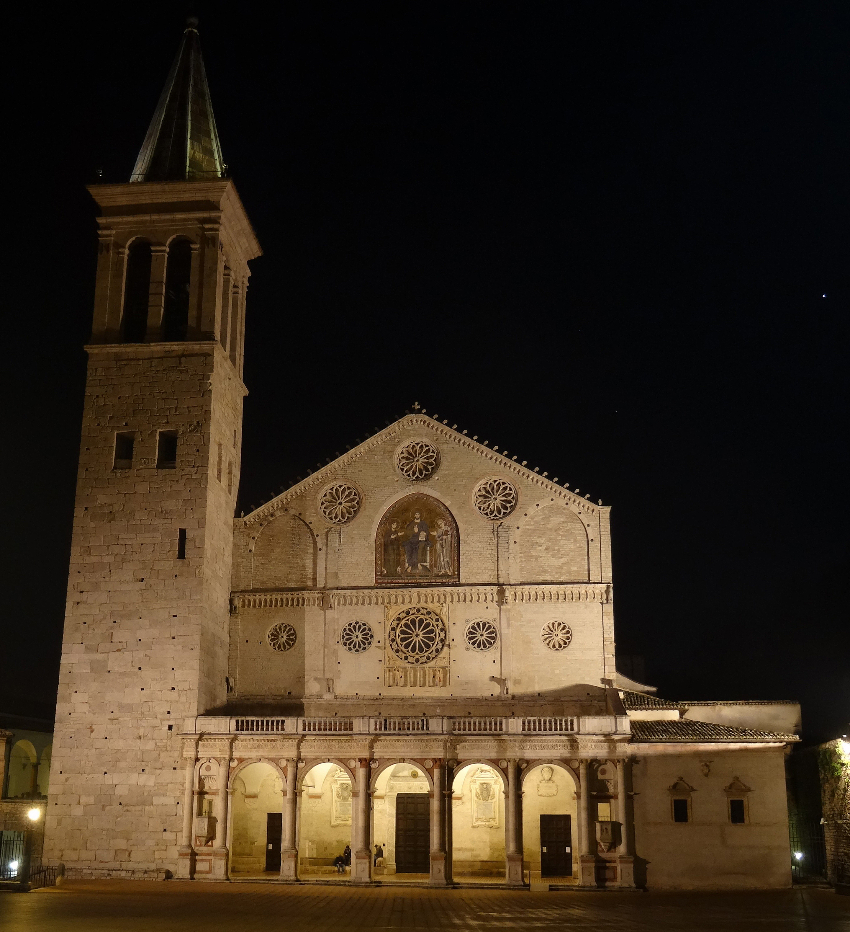 cattedrale di Santa Maria assunta